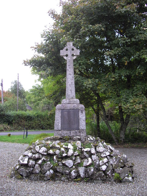 Craignish war memorial Outside Craignish Church near the B8002